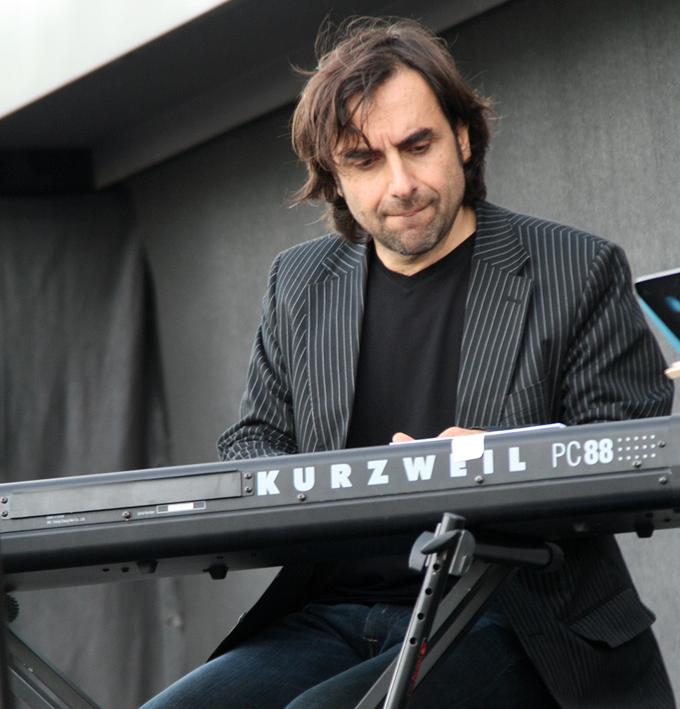 French composer and pianist André Manoukian performing at a concert of singer Malia at the Rathausplatz in Vienna (Jazz-Fest Wien)